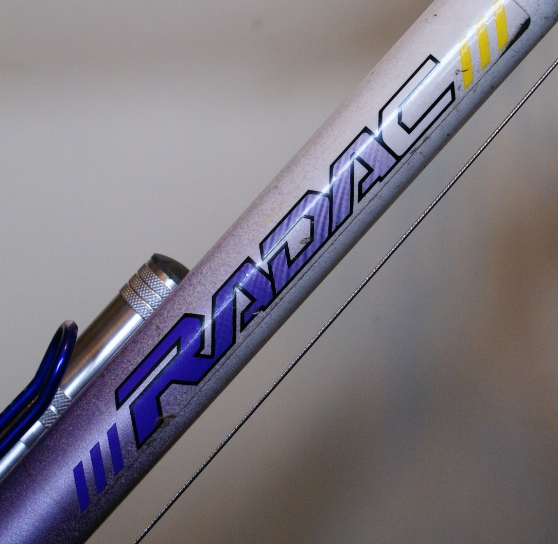 Bridgestone roadbike RADAC logo